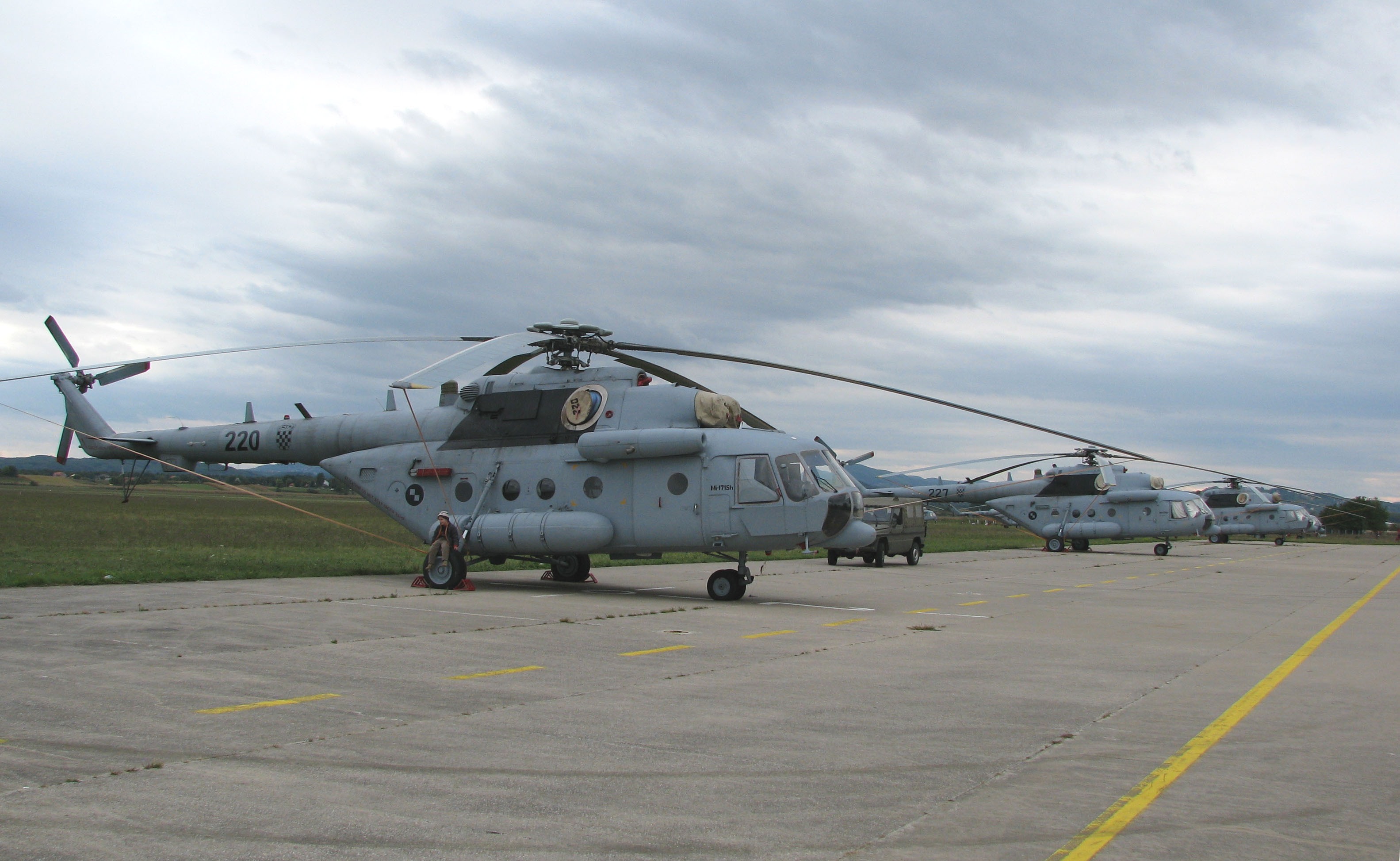 Croatian Mi-171Sh at Lučko Airbase